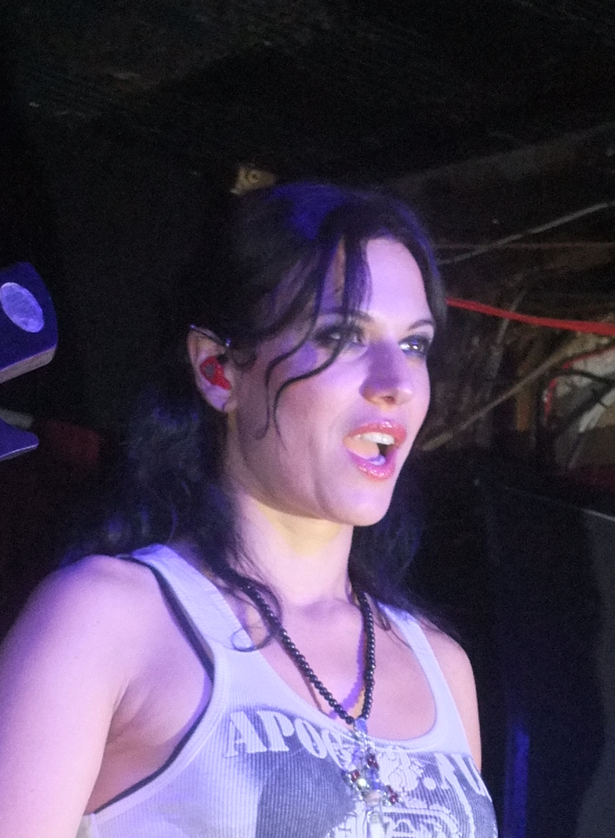 Christina Scabbia performing with Lacuna Coil at The Borderline in London, 9th October 2010